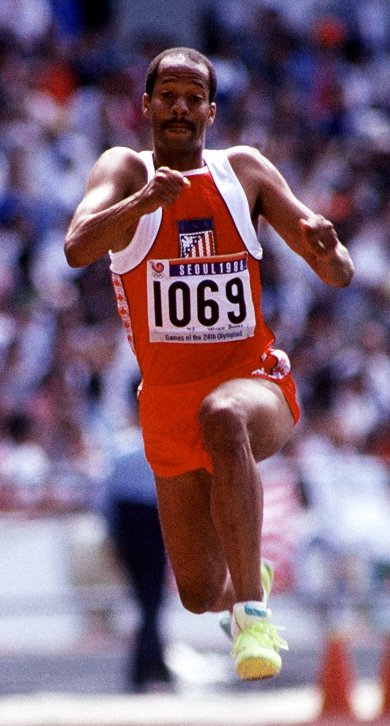 Willie Banks Jr., holder of the world triple jump record, competes in the XXIVth Olympiad. He placed sixth.